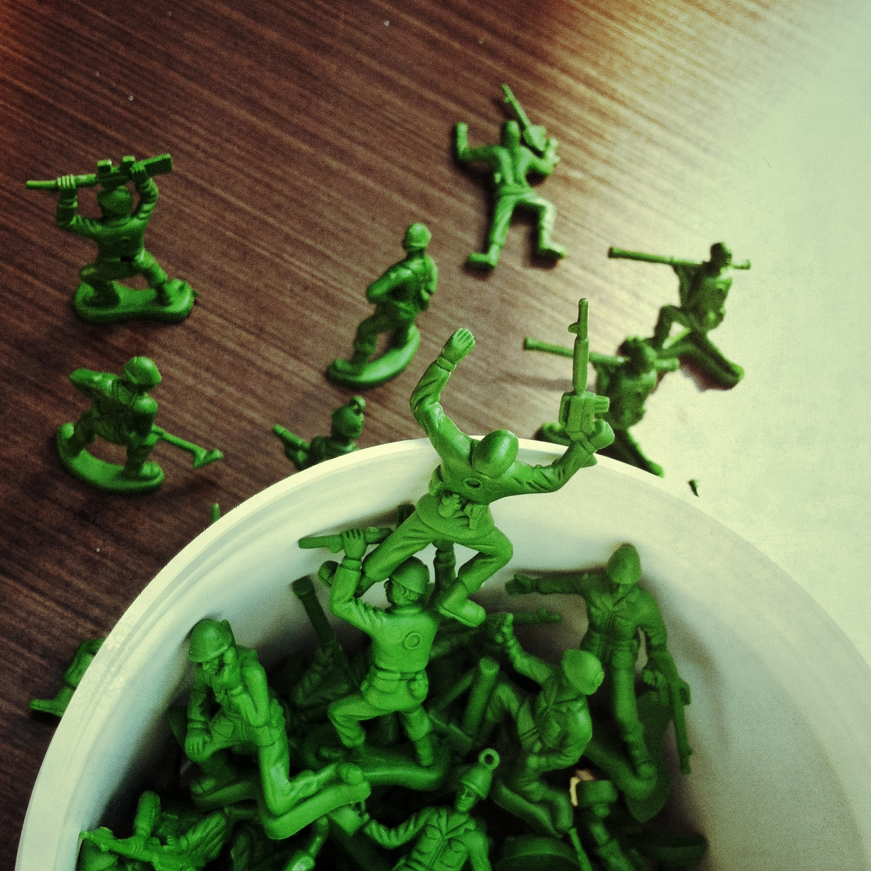 Buck o' soldiers.